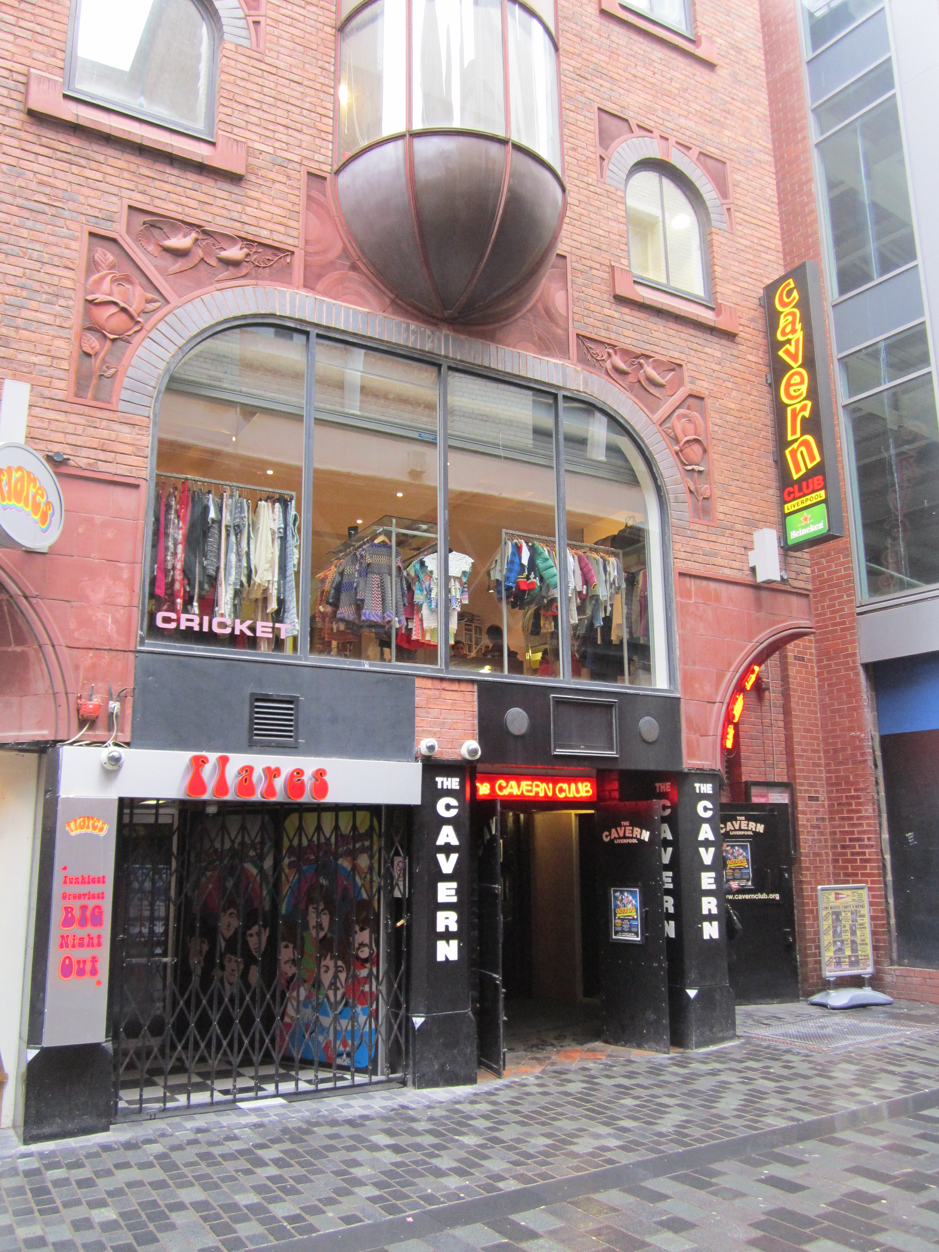 Cavern Club, Mathew Street, Liverpool, England.